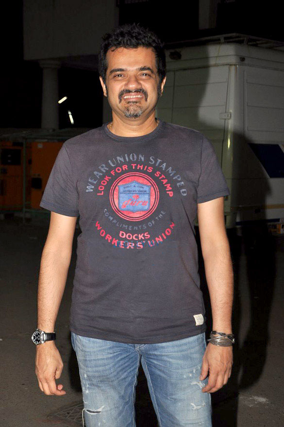 Ehsaan Noorani at Soulmate performance